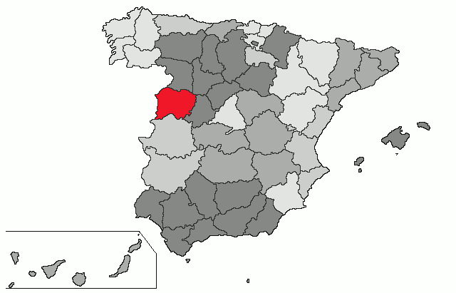 Province of Salamanca Based in Image:ProvPont.jpg Source: Designed by Leoplus. Original picture, designed by Sobreira.